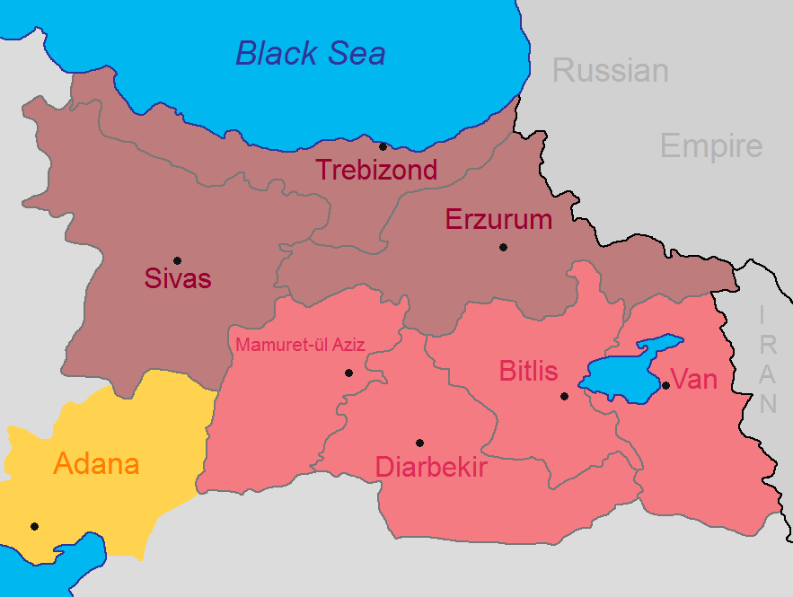 Armenian reform package based on Yerevan State University Armenian Studies Institute by Babken Harutyunyan